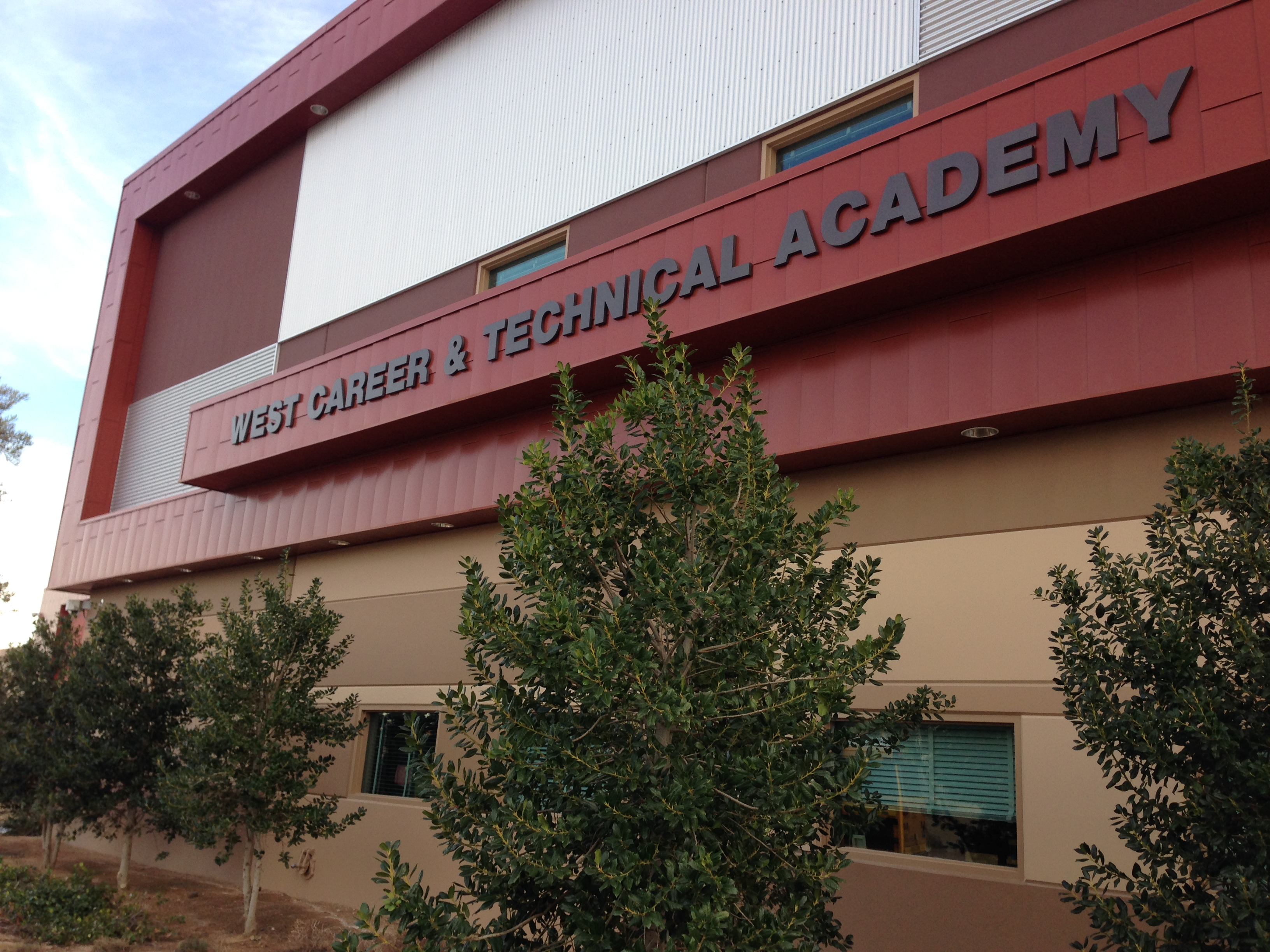 The front entrance to the West Career & Technical Academy — in Las Vegas, Nevada.